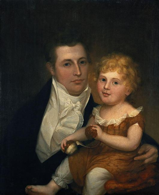 Painted by Thomas Birch